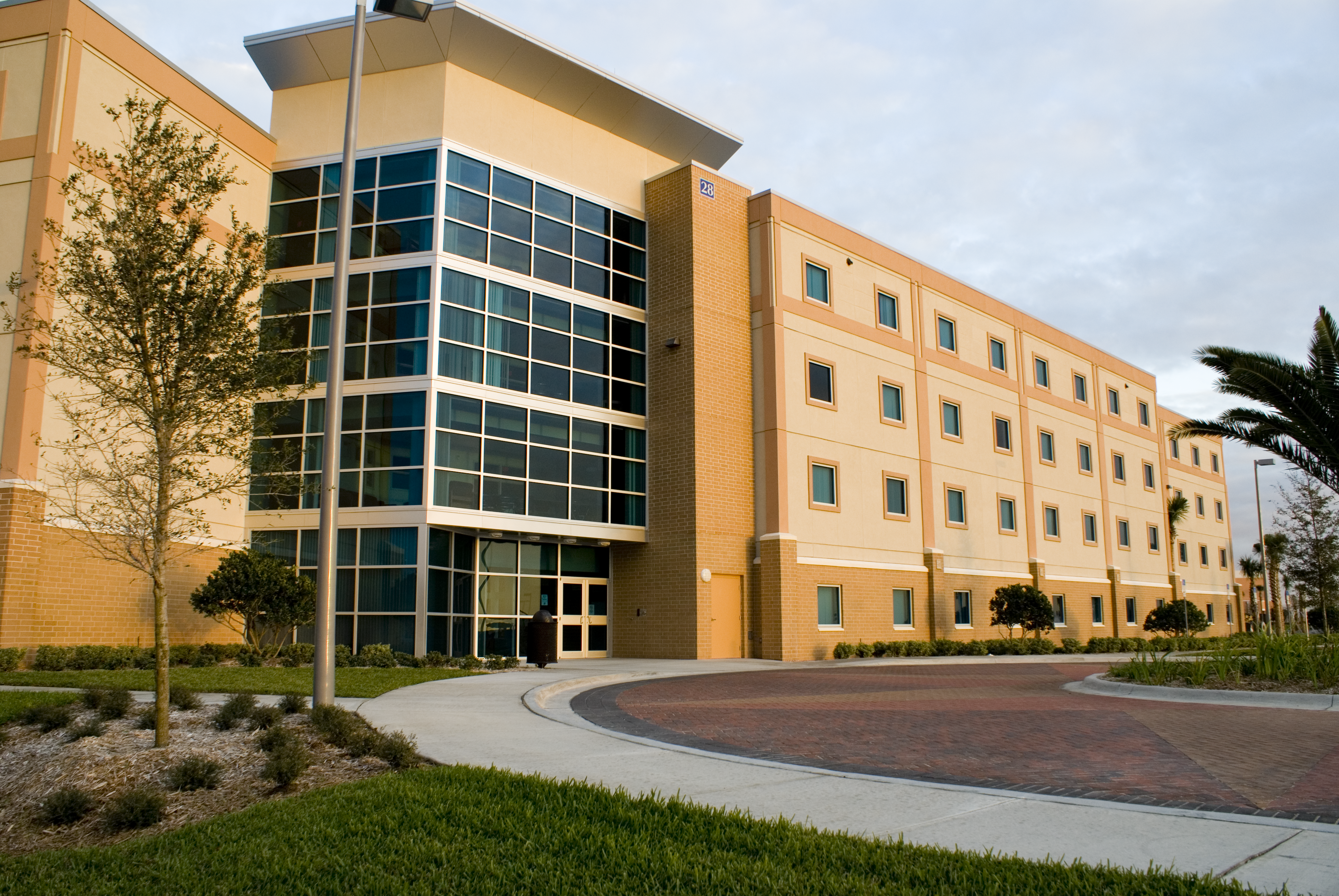 Embry-Riddle Aeronautical University Apollo Hall